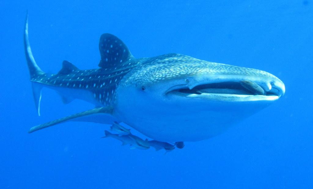 Whaleshark, Daedalus Reef, Red Sea, Egypt - take 2